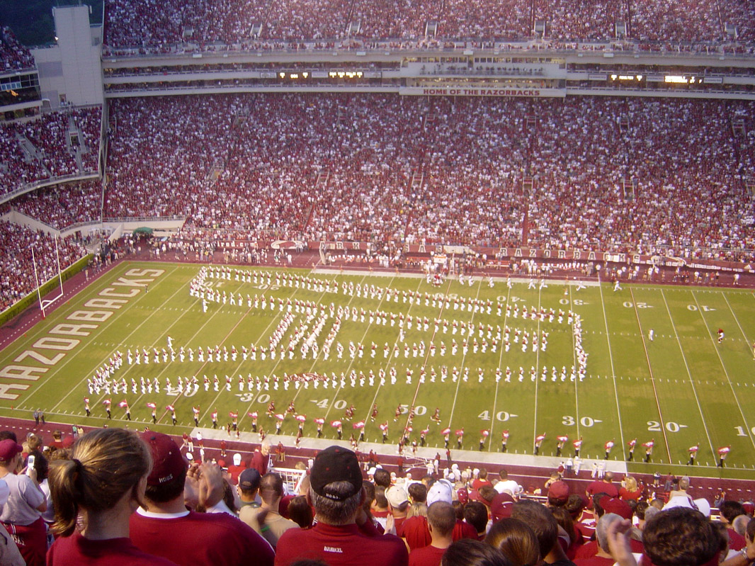 The University of Arkansas Razorback Marching Band in the 'Big A' formation in the pre-game show before a game at Donald W. Reynolds Razorback Stadium. Photo taken by Bobak Ha'Eri. September 2, 2006. Please observe license and properly cite in use outside Wikipedia.